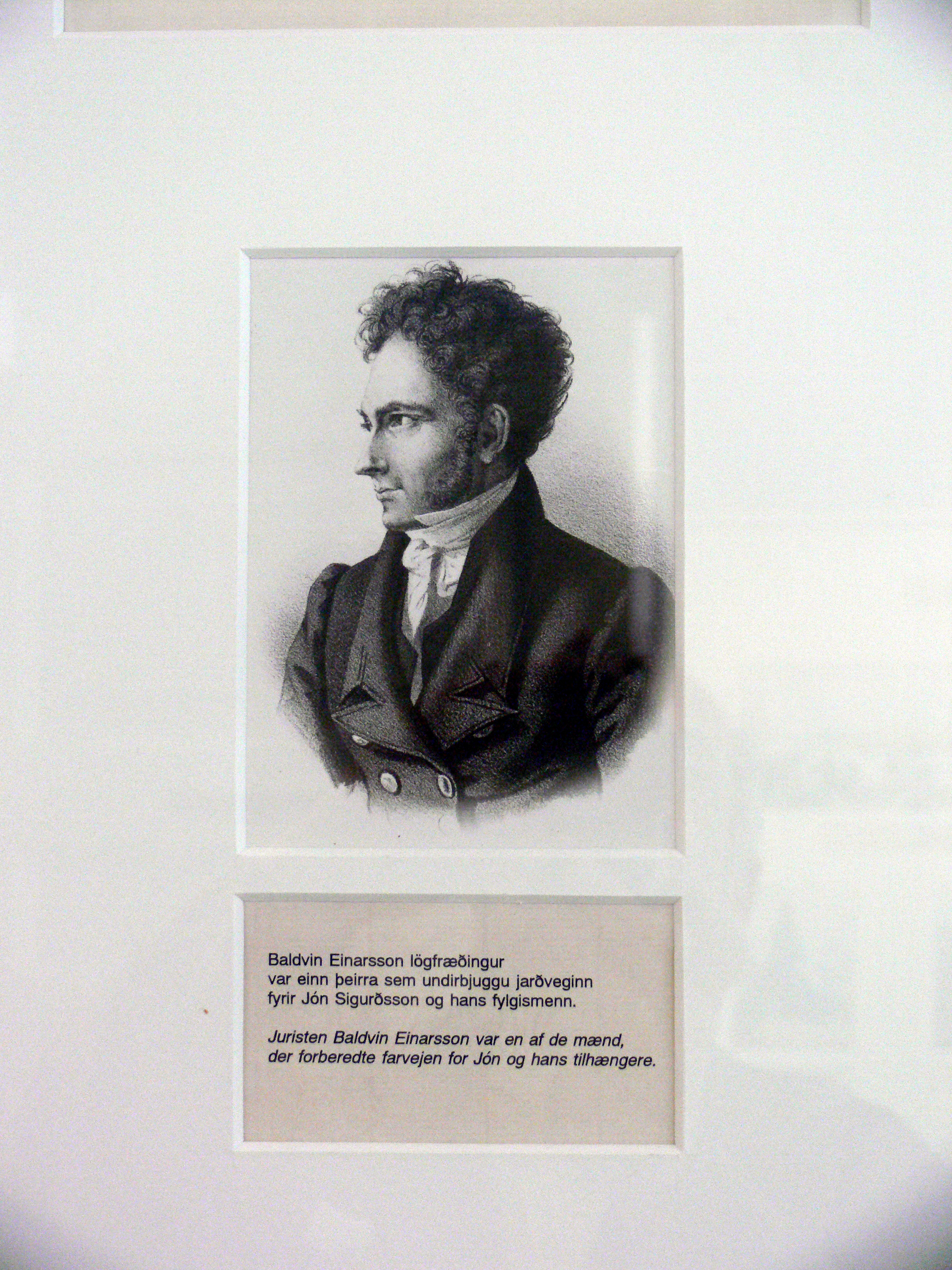 Icelandic politician Baldvin Einarsson. (02.08.1801–09.02.1833)